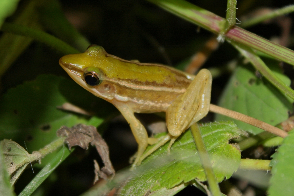 Two-striped Grass Frog (Hylarana taipehensis, syn. Rana taipehensis) Taken in a very buggy marsh in Pat Sin Leng Country Park and took us ages of silently listening to actually locate.